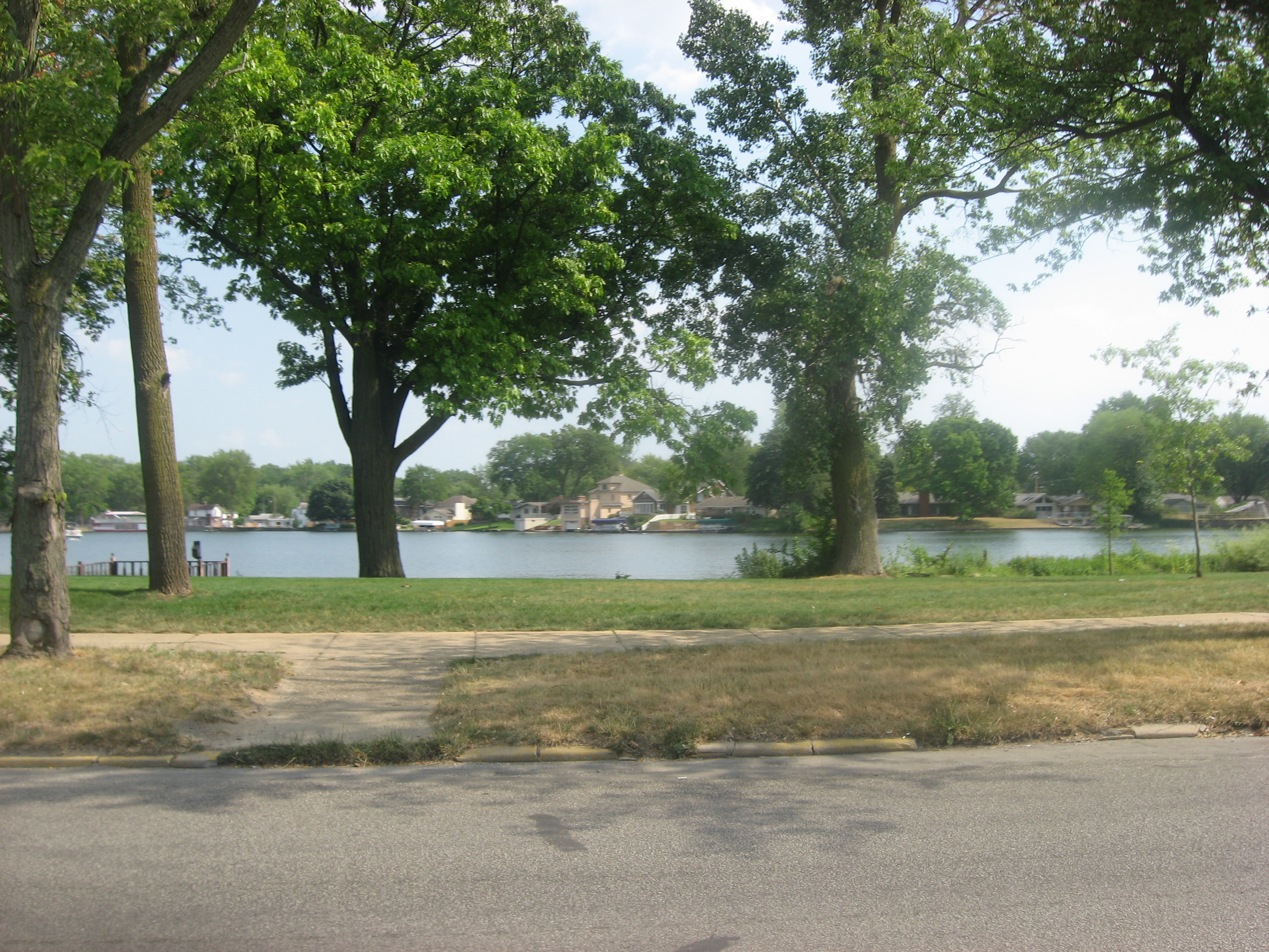 An empty lot on the southern side of the 800 block of E. Beardsley Avenue in Elkhart, Indiana, United States. The lot was once occupied by the Mark L. and Harriet E. Monteith House; listed on the National Register of Historic Places in 1985, it remains on the Register despite its destruction c. 2008. Visible in the background is the St. Joseph River.